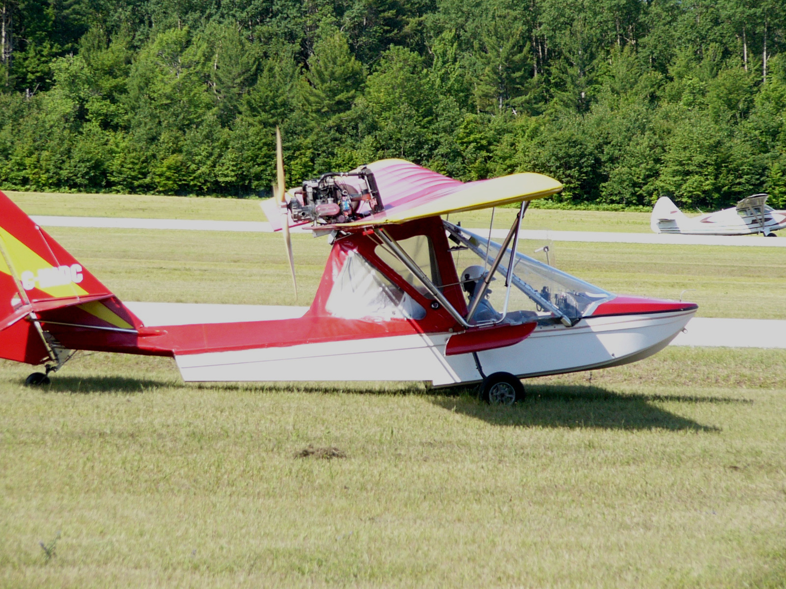 An Advanced Aeromarine Buccaneer at the Midland, Ontario Fly-in July 2004